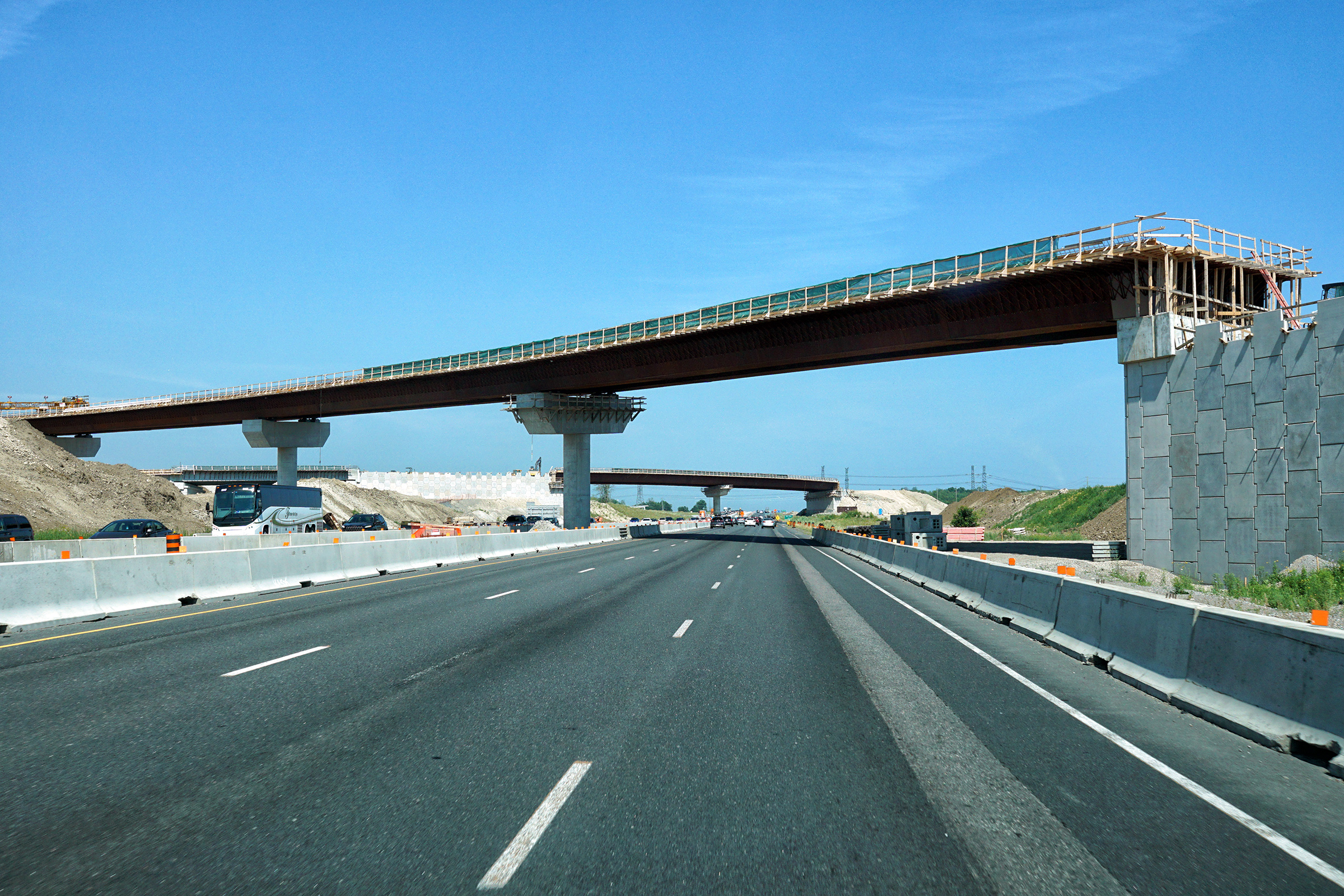 The future interchange between Highway 401 and Highway 418 looking easterly through the Highway 418 interchange.